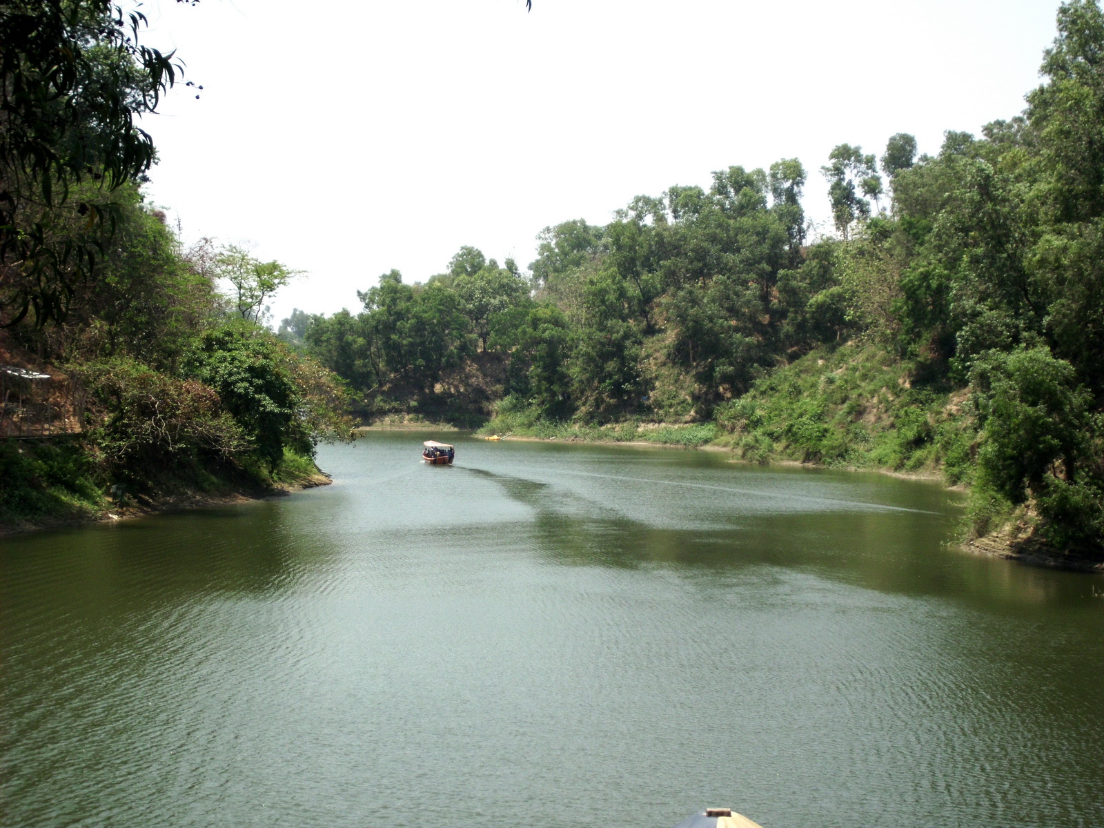 Foy's Lake by Rahat